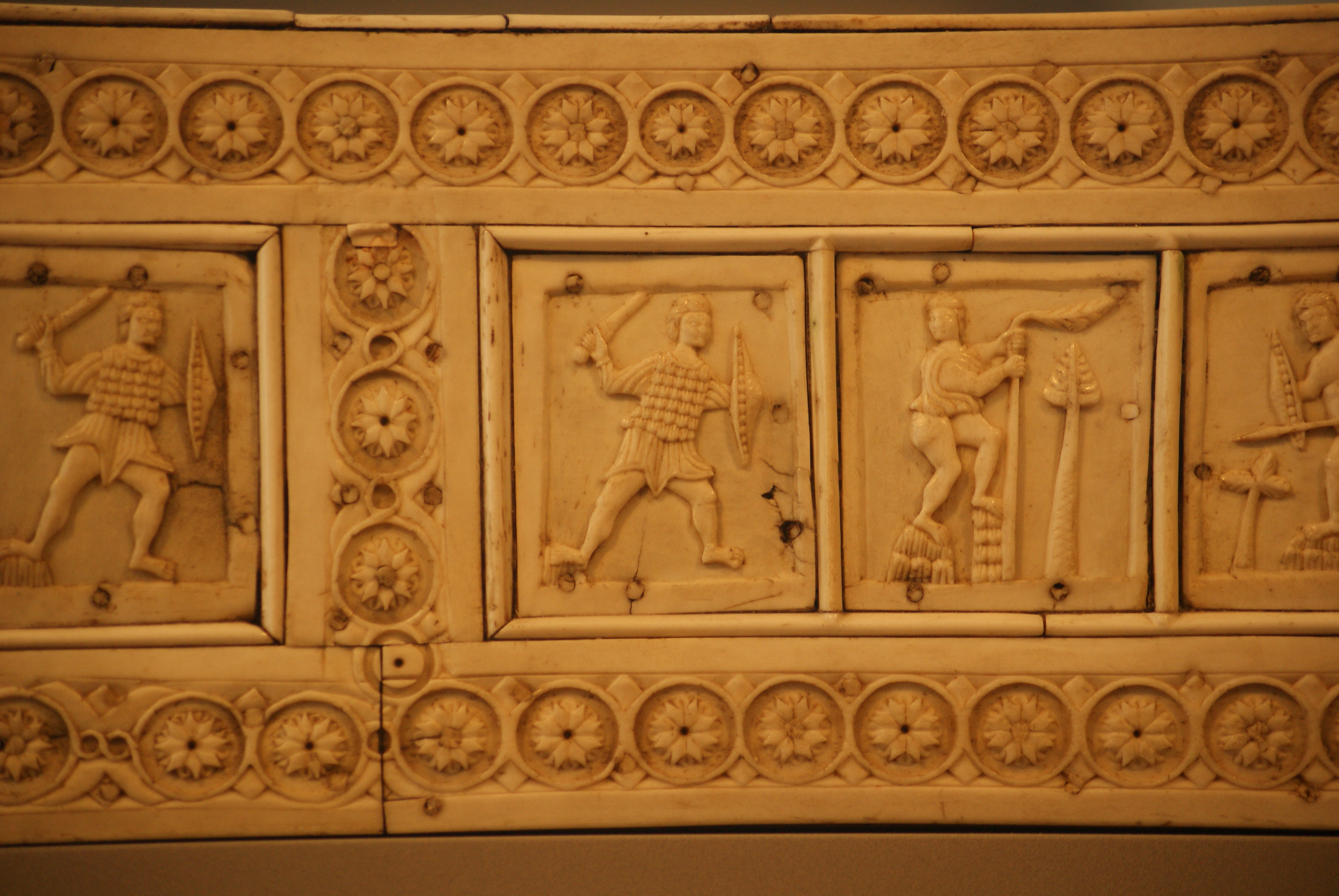 6th century ivory relief of Roman swordsman